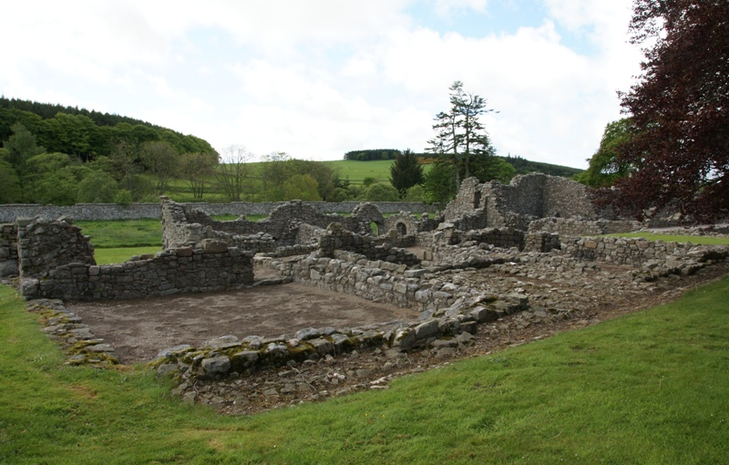 Deer Abbey, Old Deer, Aberdeenshire, Scotland. View from north east.